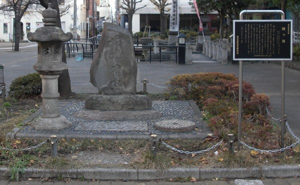 Stone monument of "Ubagaike" (Taitō, Tokyo, Japan)